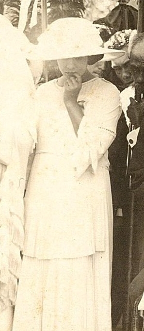 Princess Abigail Kapiolani at Prince Kuhio's funeral.